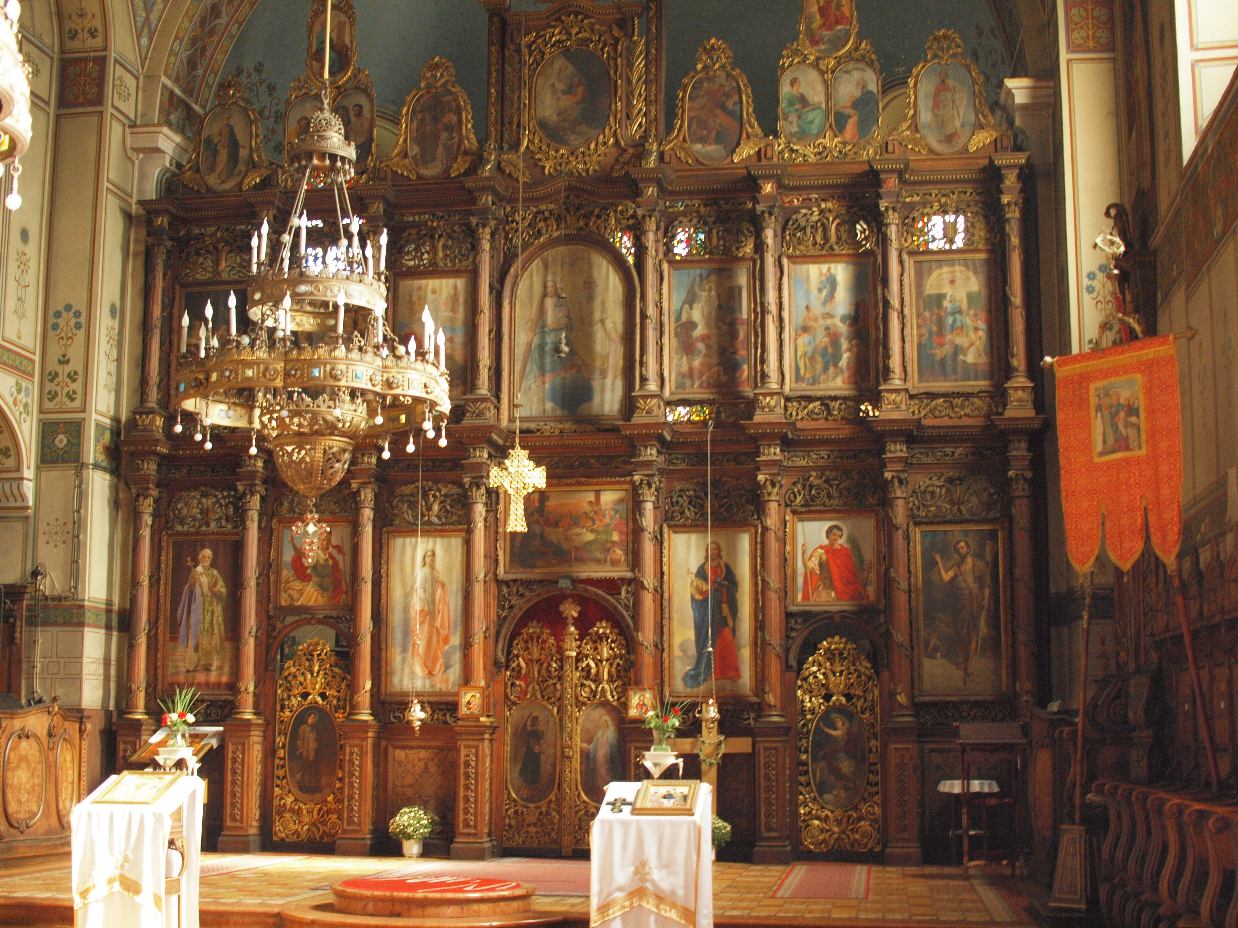 Ikonostase der orthodoxen Hauptkirche Rumas, Ikonen von Uros Predic